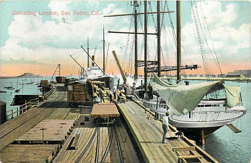 The Schooner Carrier Dove - San Francisco, was built in 1890. She is dockside in San Pedro, California, unloading lumber.